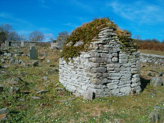 Hermit's Cell. Near Moville High Cross.